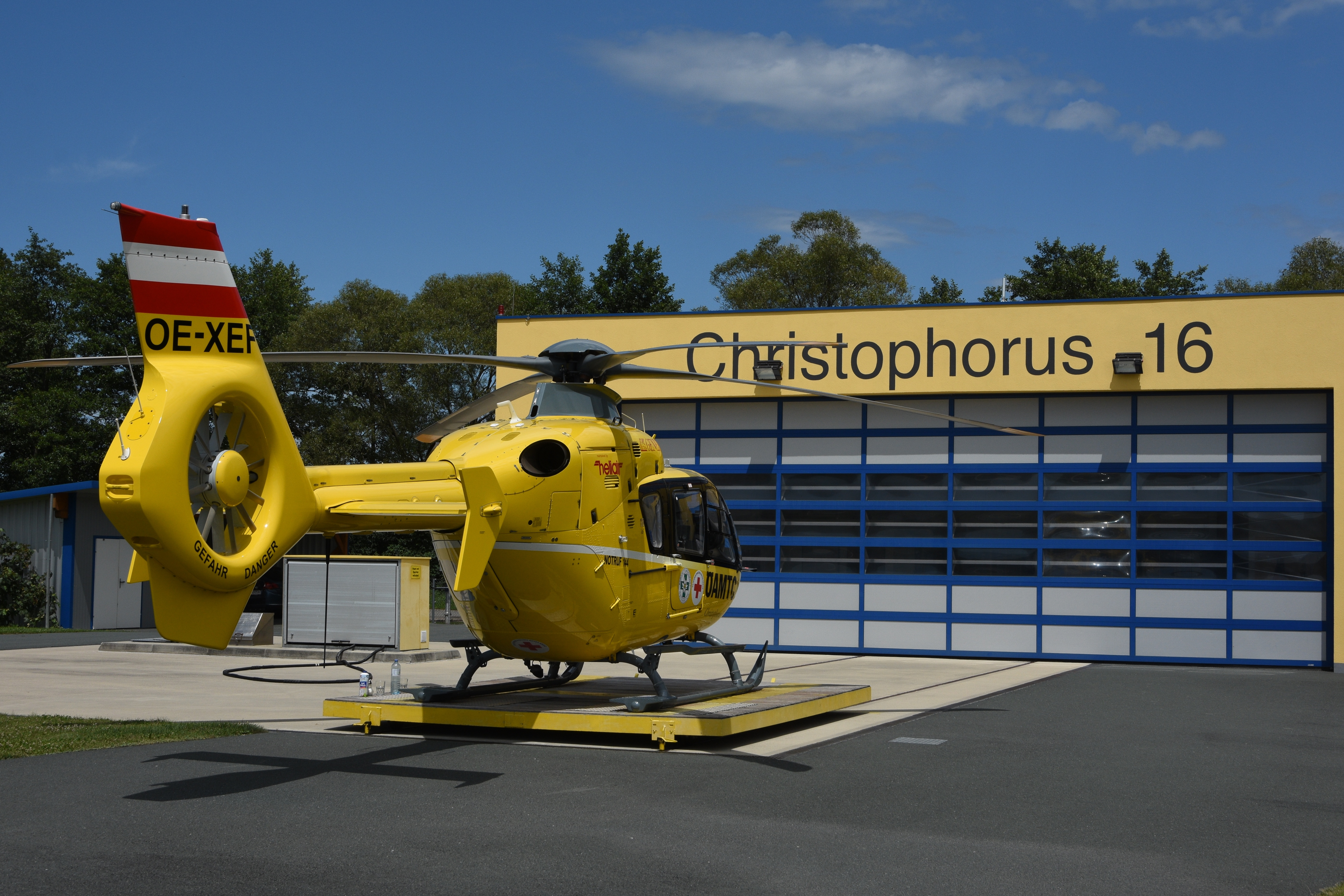 OE-XEF (aircraft) Christophorus 16